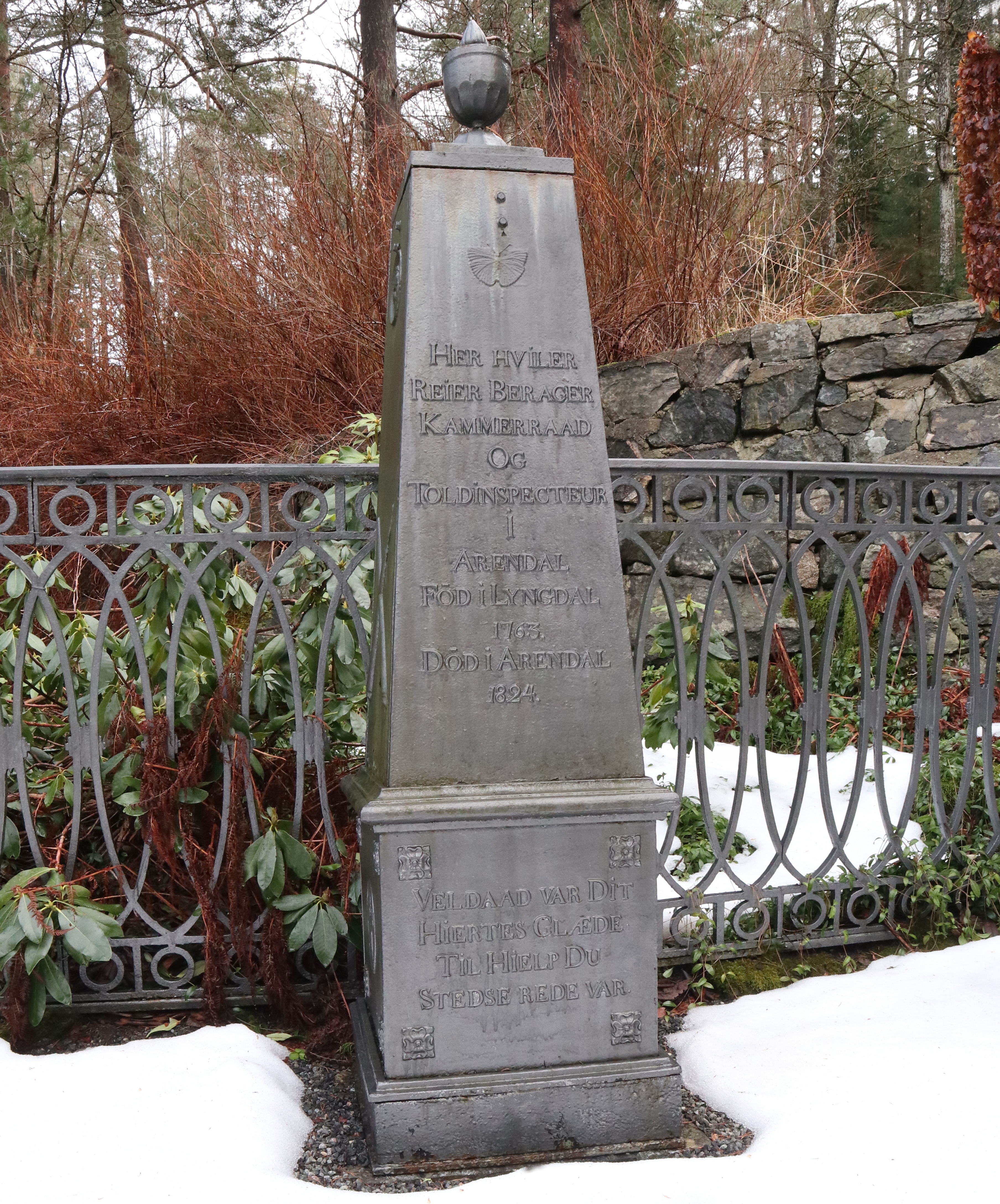 Memorial, as an obelisk, made of Cast Iron.